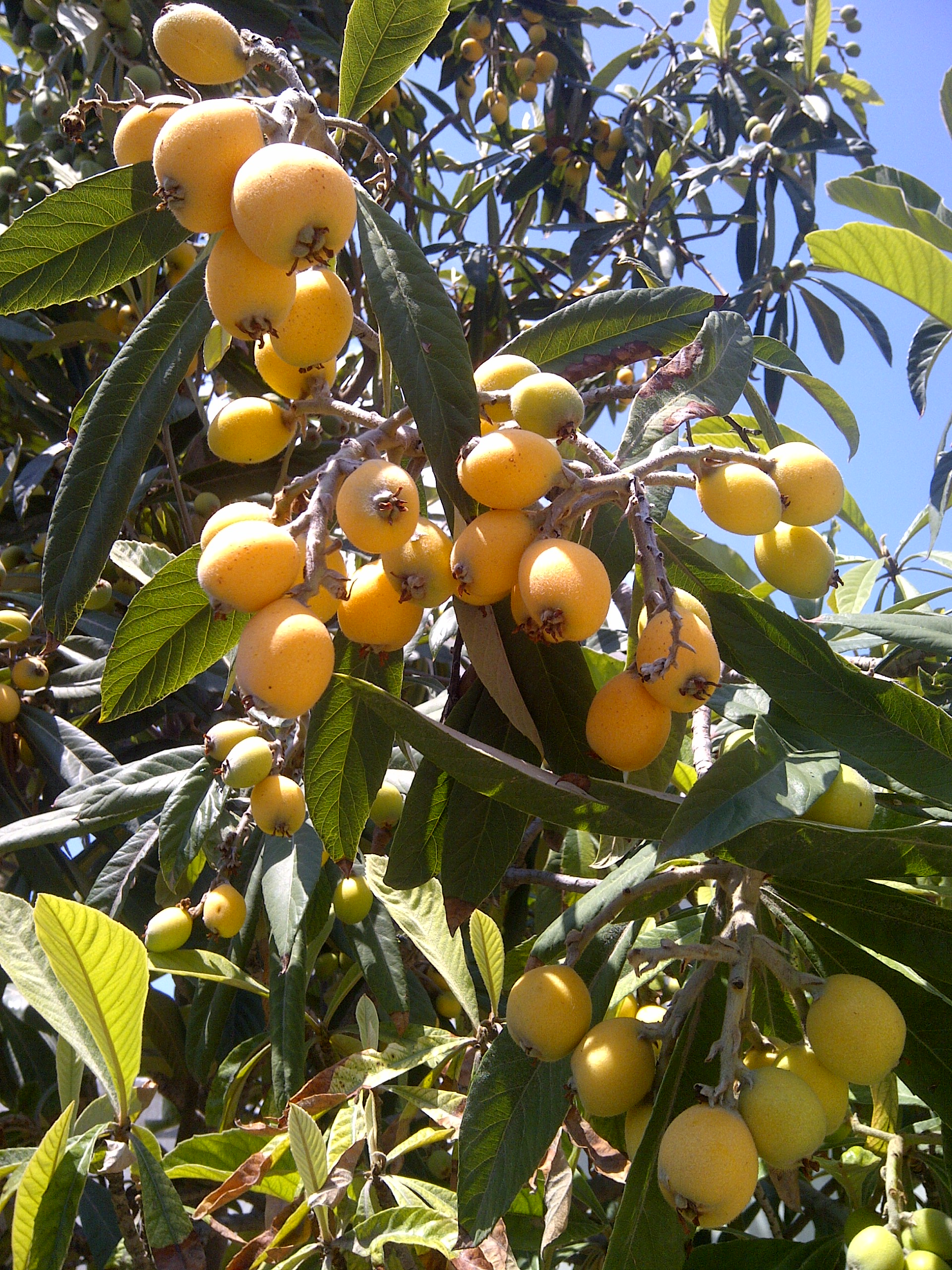 Loquat fruit & leaves, at Garhi Banoorian Kohat